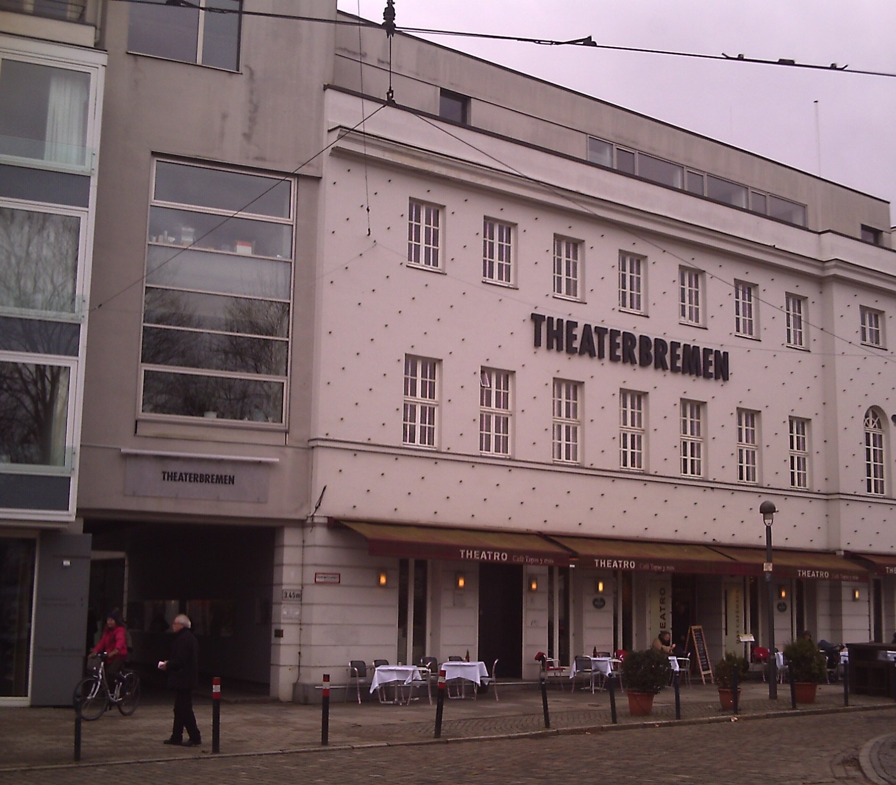 Entrance to the Theatre in Bremen